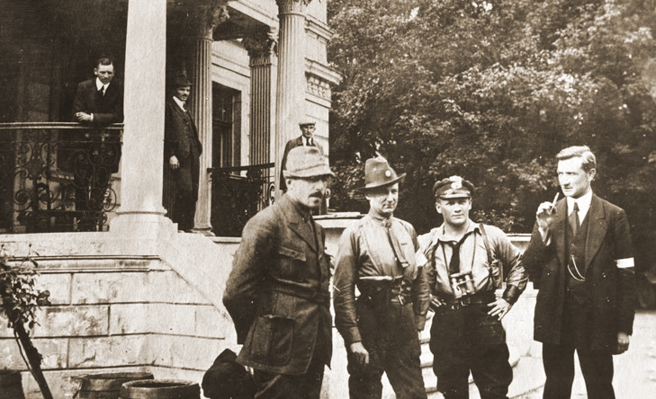 Group of Polish officers during Third Silesian Uprising (1921). First to the right Jan Kowalewski